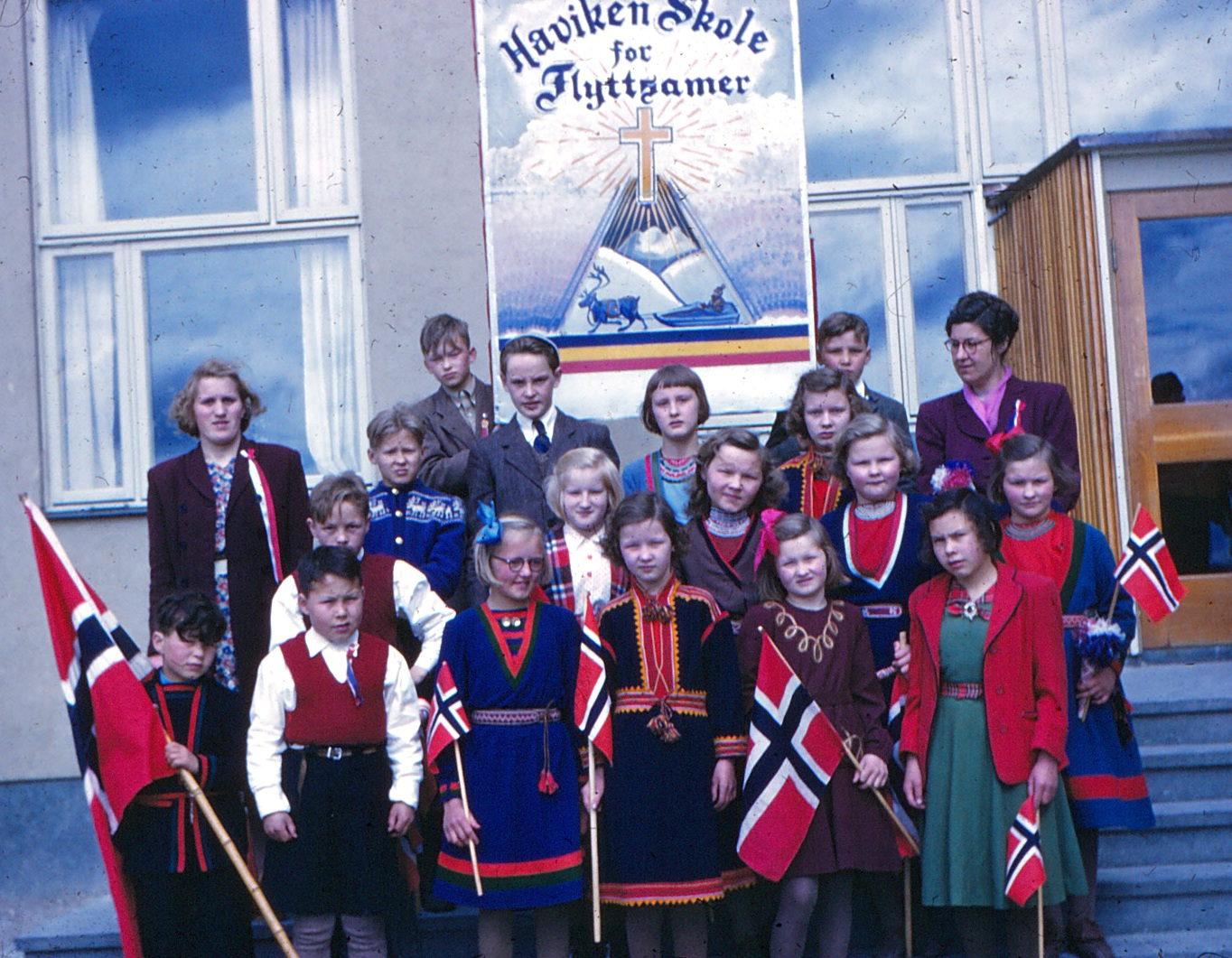 National day parade with pupils from Sameskolen i Havika, the Southern Sami boarding school in Havika, Namsos.